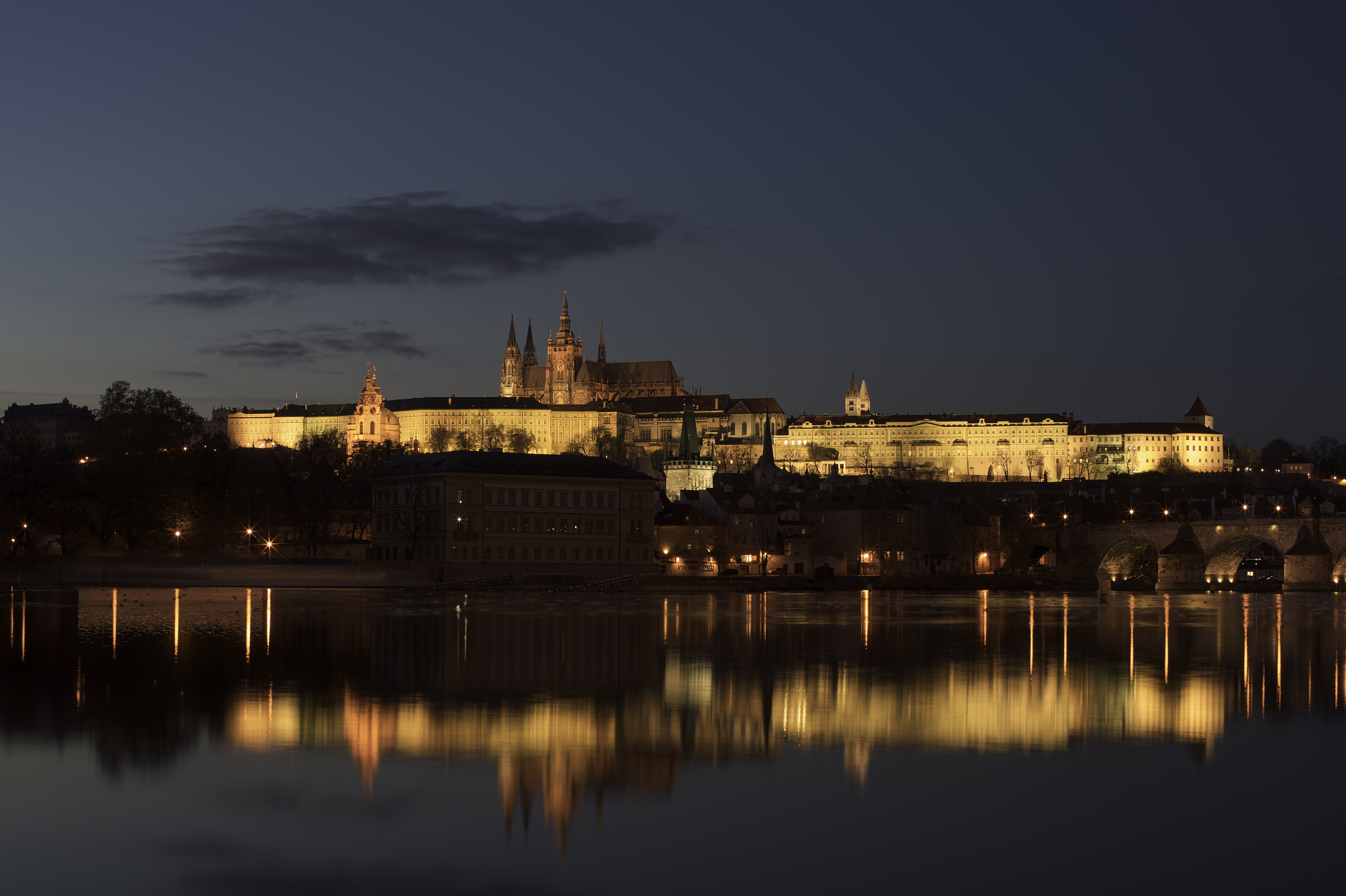 Prague Castle (Czech: Pražský hrad) is a castle in Prague where the Czech kings, Holy Roman Emperors and presidents of Czechoslovakia and the Czech Republic have had their offices. The Czech Crown Jewels are kept here. Prague Castle is one of the biggest castles in the world (according to Guinness Book of Records the biggest ancient castle [1]) at about 570 meters in length and an average of about 130 meters wide. from wikipedia